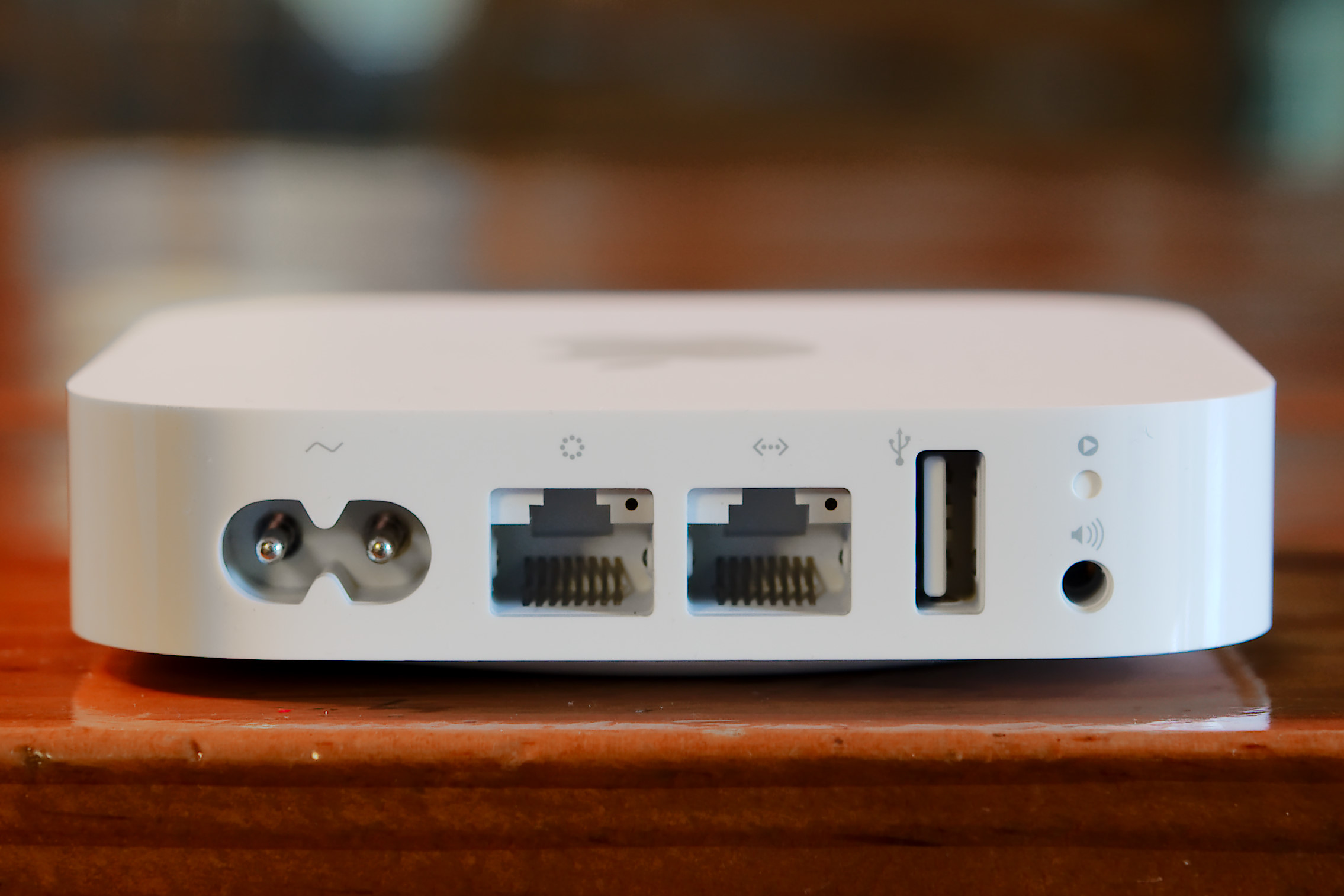 Apple's Airport Express wifi base station, 2012 model showing available ports. From left to right: power port, ethernet ports, USB, reset button and analog/optical headphone jack.